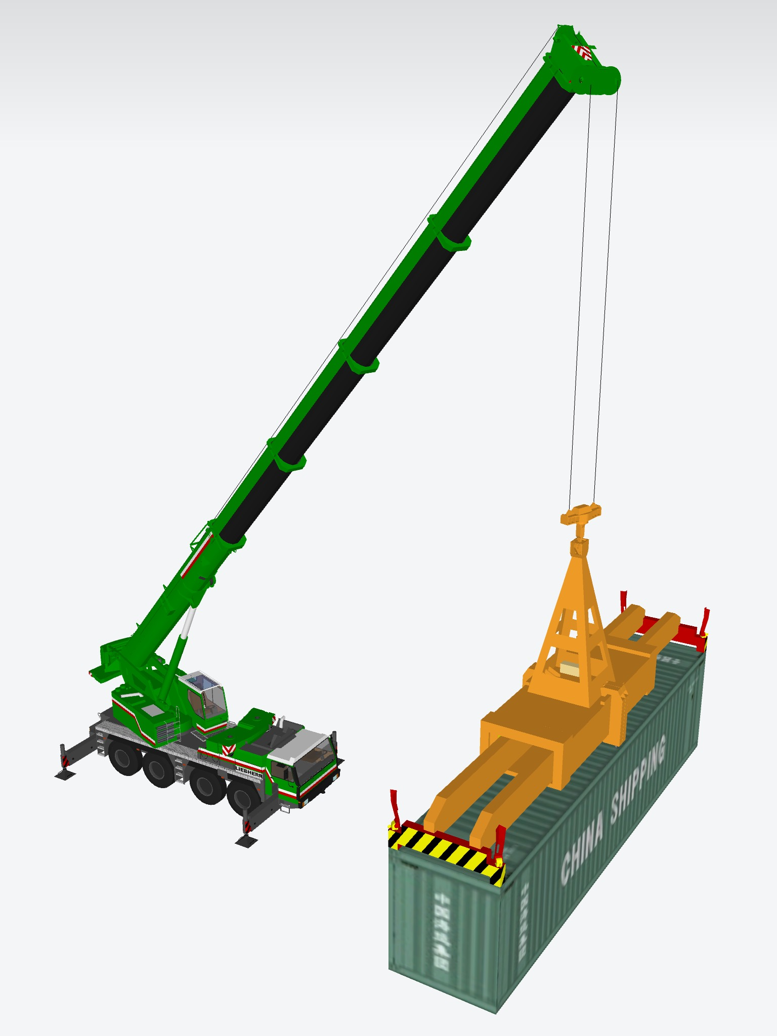 I hereby affirm that I, (kcida10) the creator of ( mobile container crane ) is my work. I agree to publish that work under the free license This file is made available under the Creative Commons CC0 1.0 Universal Public Domain Dedication. The person who associated a work with this deed has dedicated the work to the public domain by waiving all of his or her rights to the work worldwide under copyright law, including all related and neighboring rights, to the extent allowed by law. You can copy, modify, distribute and perform the work, even for commercial purposes, all without asking permission. I acknowledge that by doing so I grant anyone the right to use the work in a commercial product or otherwise, and to modify it according to their needs, I am aware that this agreement is not limited to Wikipedia or related sites. Modifications others make to the work will not be claimed to have been made by me. I acknowledge that I cannot withdraw this agreement, and that the content may or may not be kept permanently on a Wikimedia project. Kcida10 La Crosse, WI 54603. I am the designer and creator of the 3D model ( mobile container crane ) on Sketchup Make's open source repository. 29Nov15